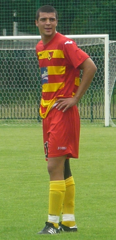 Montenegrin football player Ermin Seratlić